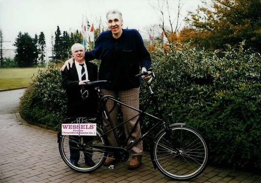 Alexander Sizonenko (27 July 1959 – 5 January 2012) and Georg Wessels